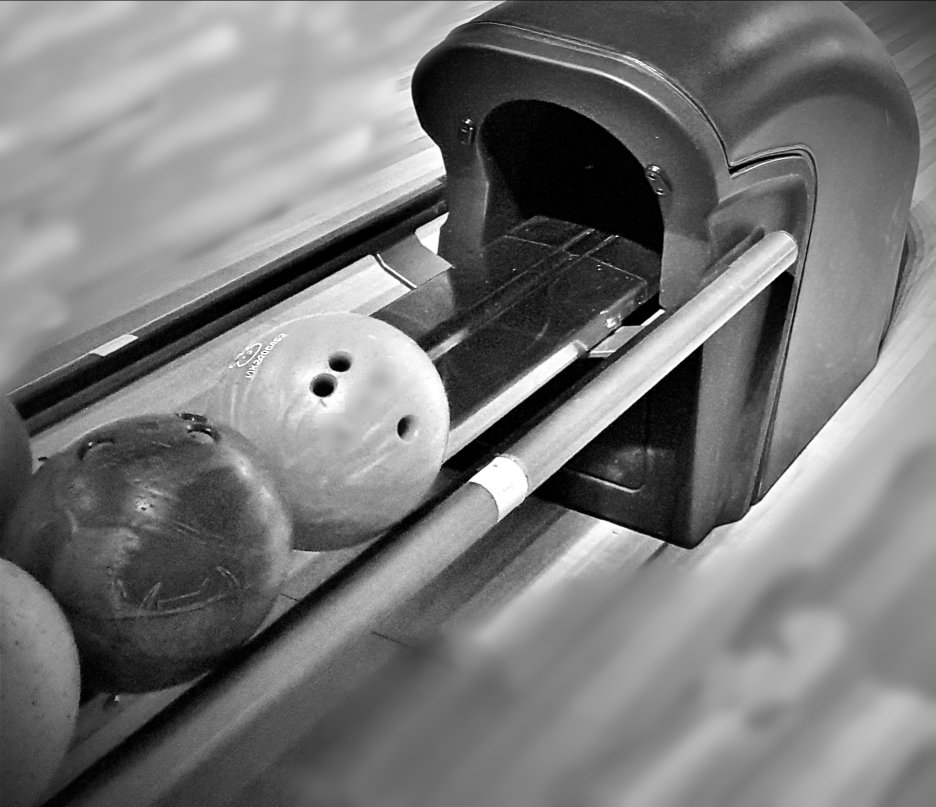 Ball return system of a bowling alley